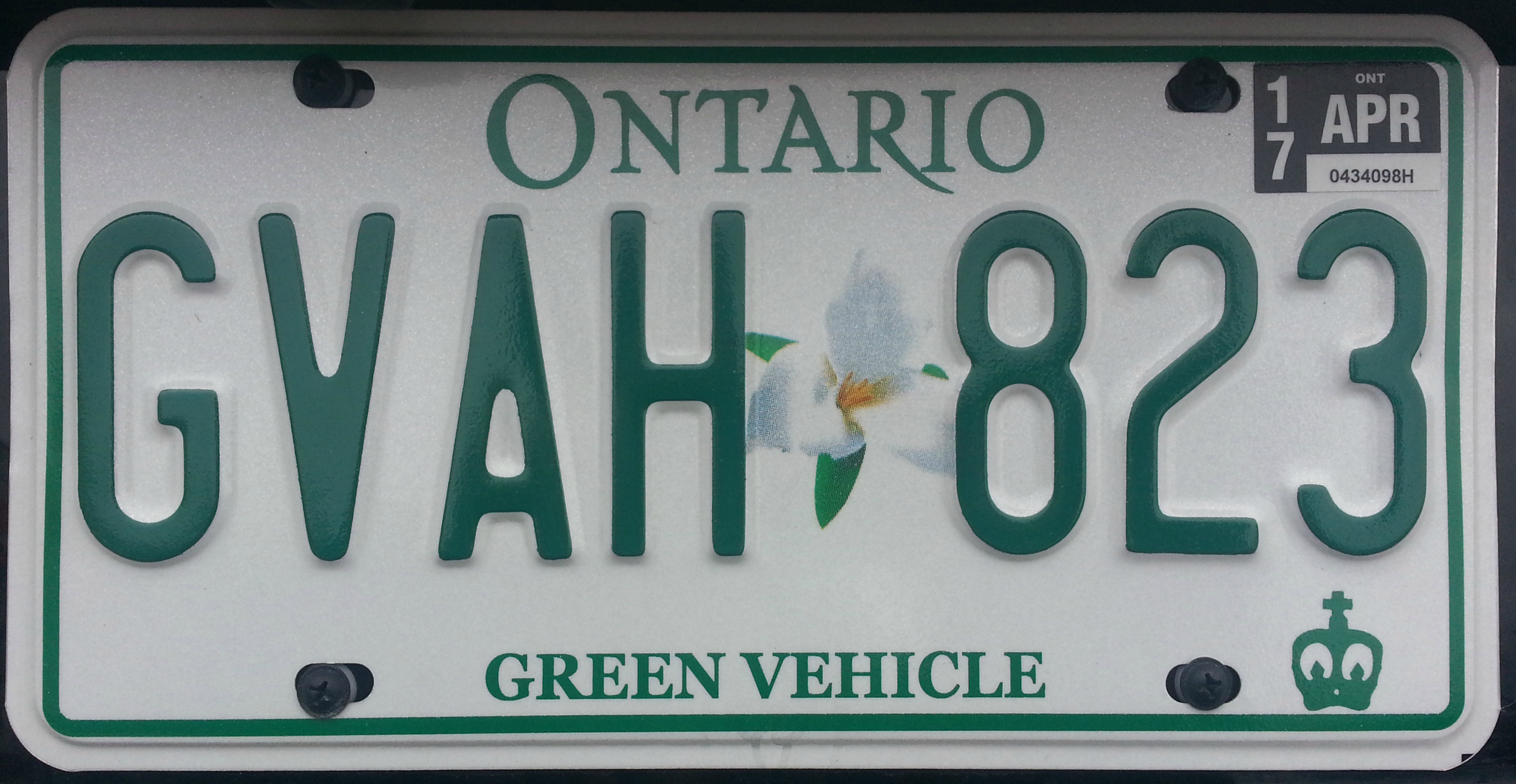 Ontario license plate for use on green vehicles. This plate was affixed to a black Tesla Model S 85D in an Ottawa parking lot.